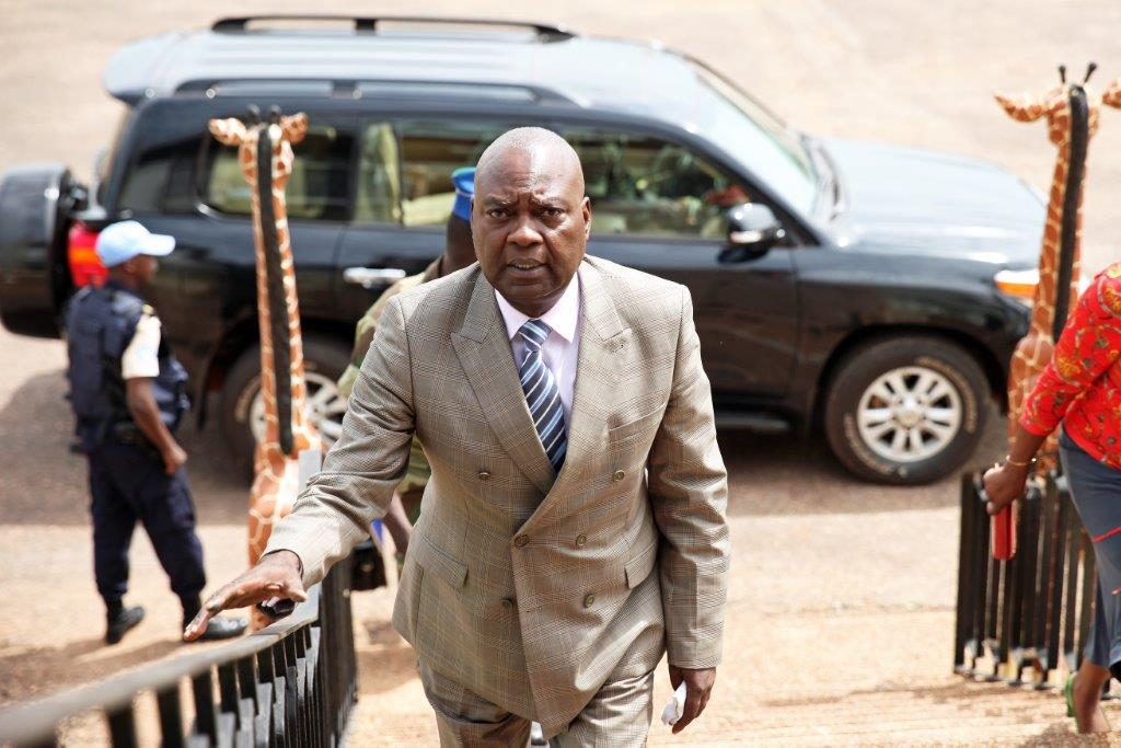 Prime Minister Simplice Mathieu Sarandji in Bangui, Central African Republic, April 2016. (VOA/ Freeman Sipila)